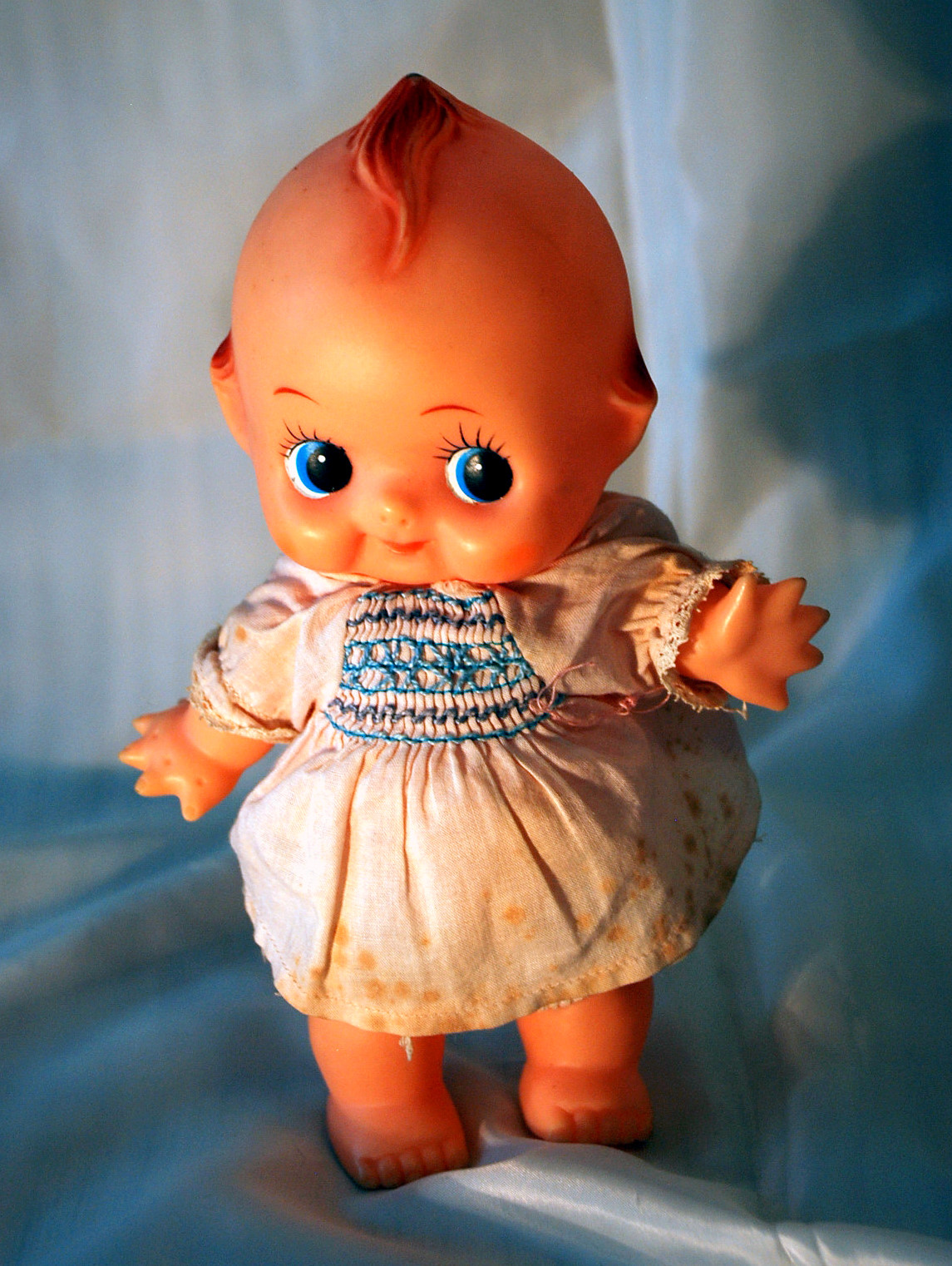 Kewpie doll.